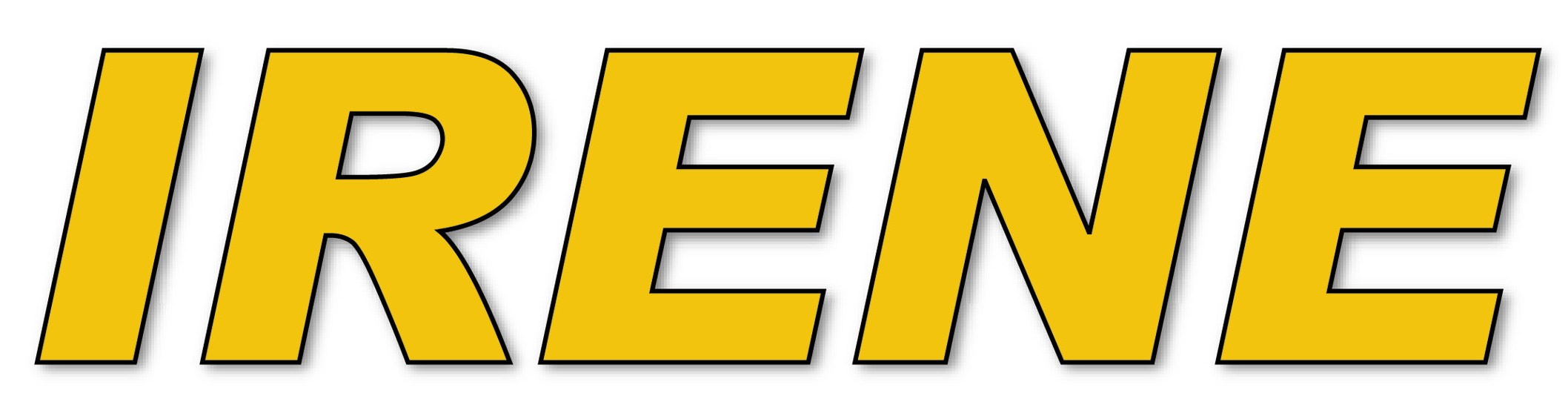 Logo IRENE, hohe Qualität